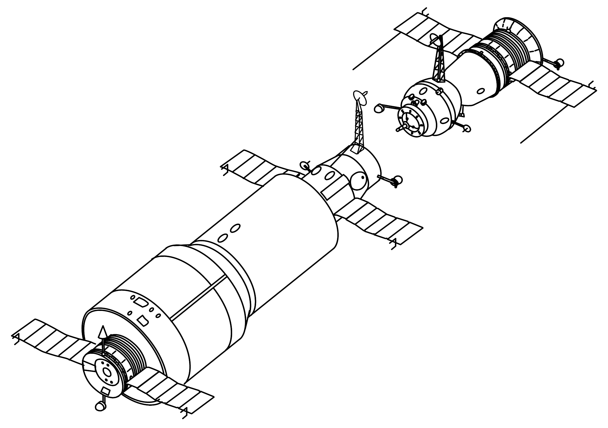 Salyut 1. Visible at the rear of the station (left) is the Soyuz-based propulsion module. A Salyut 1 Soyuz prepares to dock at the front of the station (right). Note the station’s Soyuz-type solar arrays.